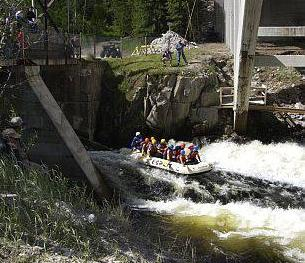 Rafts would regularly run the sluice of the Laniel Dam. The Dam initially had not been approved, nor had the boom on Kipawa Lake. When it was learned that the sluice had been used recreationally, the dam was retroactively approved, and the practice of navigation prohibited.